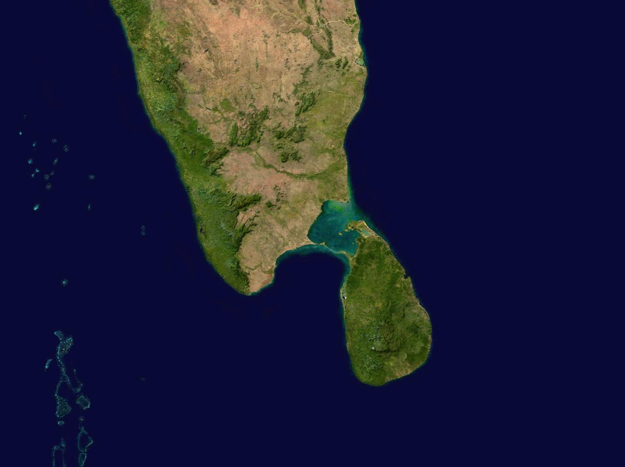 Gulf of Mannar. Satellite view.